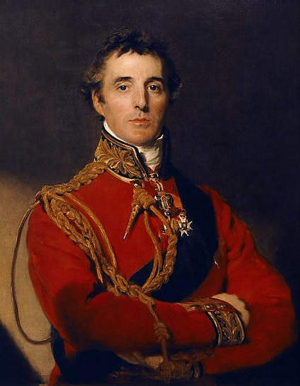 Portrait of Arthur Wellesley, 1st Duke of Wellington